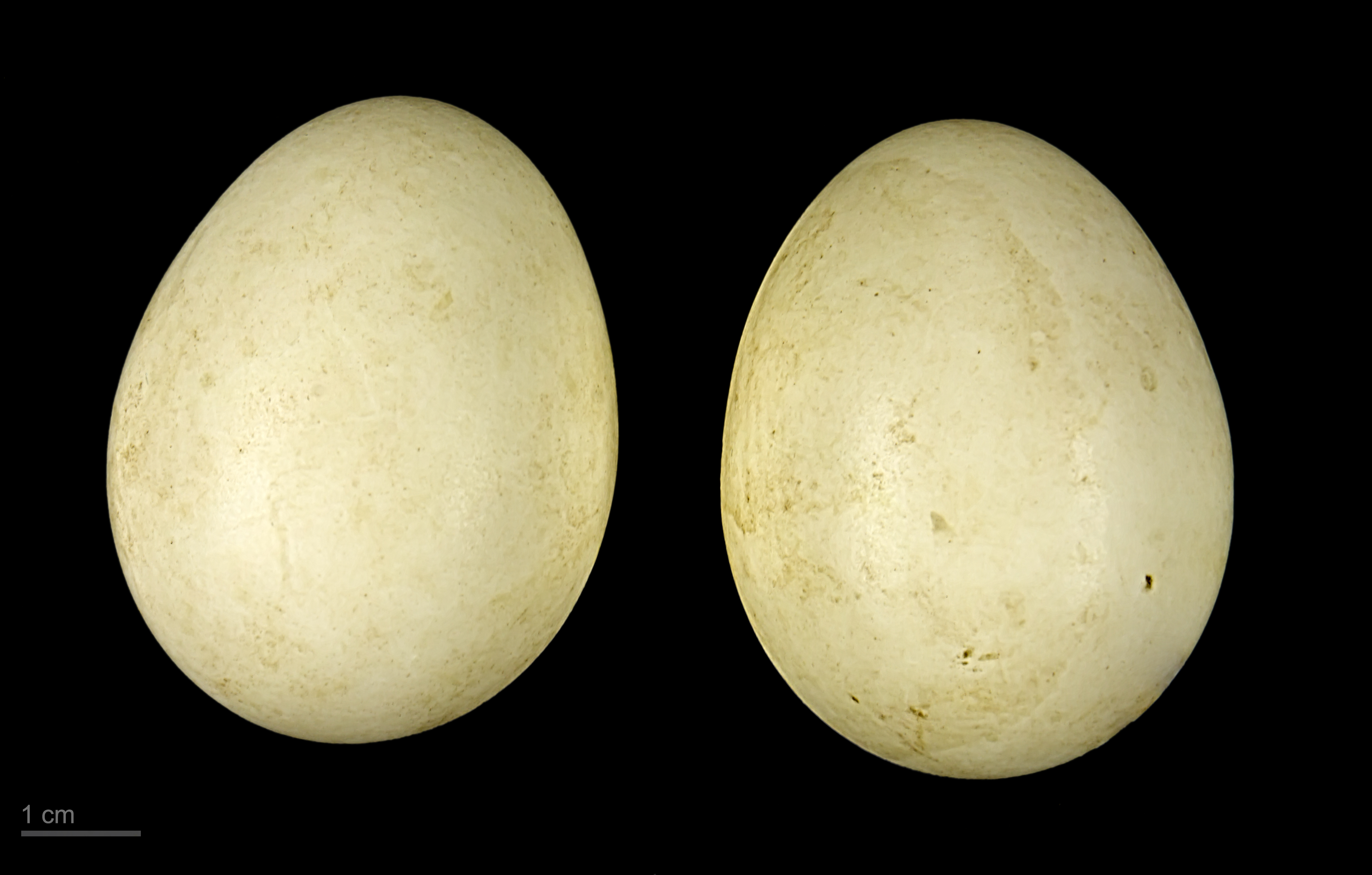 Eggs of red-billed teal Two specimens of the same spawn ; collection of Jacques Perrin de Brichambaut.